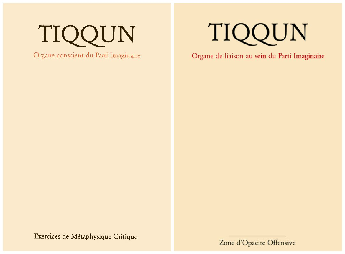 Front covers of the Tiqqun review issues.